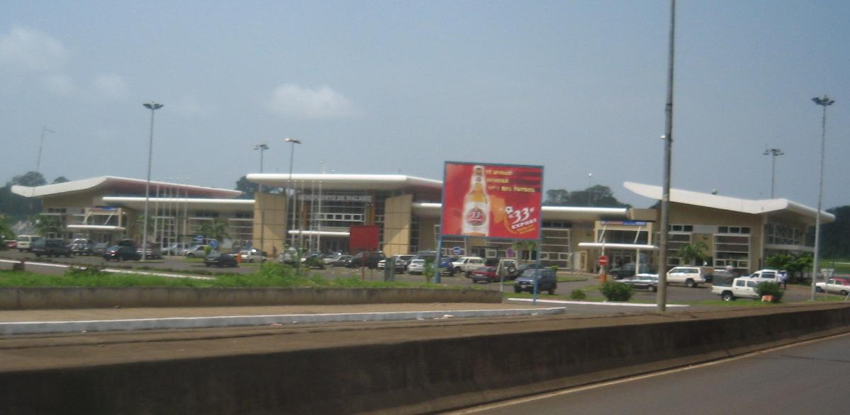 Malabo International Airport SSG/FGSL